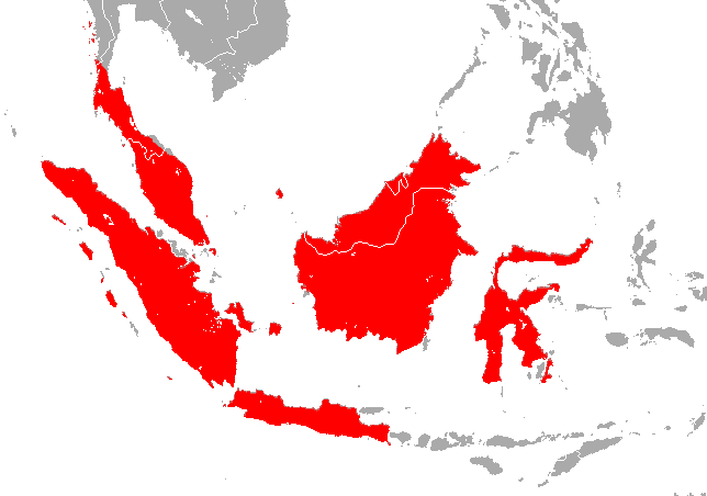 Lesser Sheath-Tailed Bat (Emballonura monticola) range